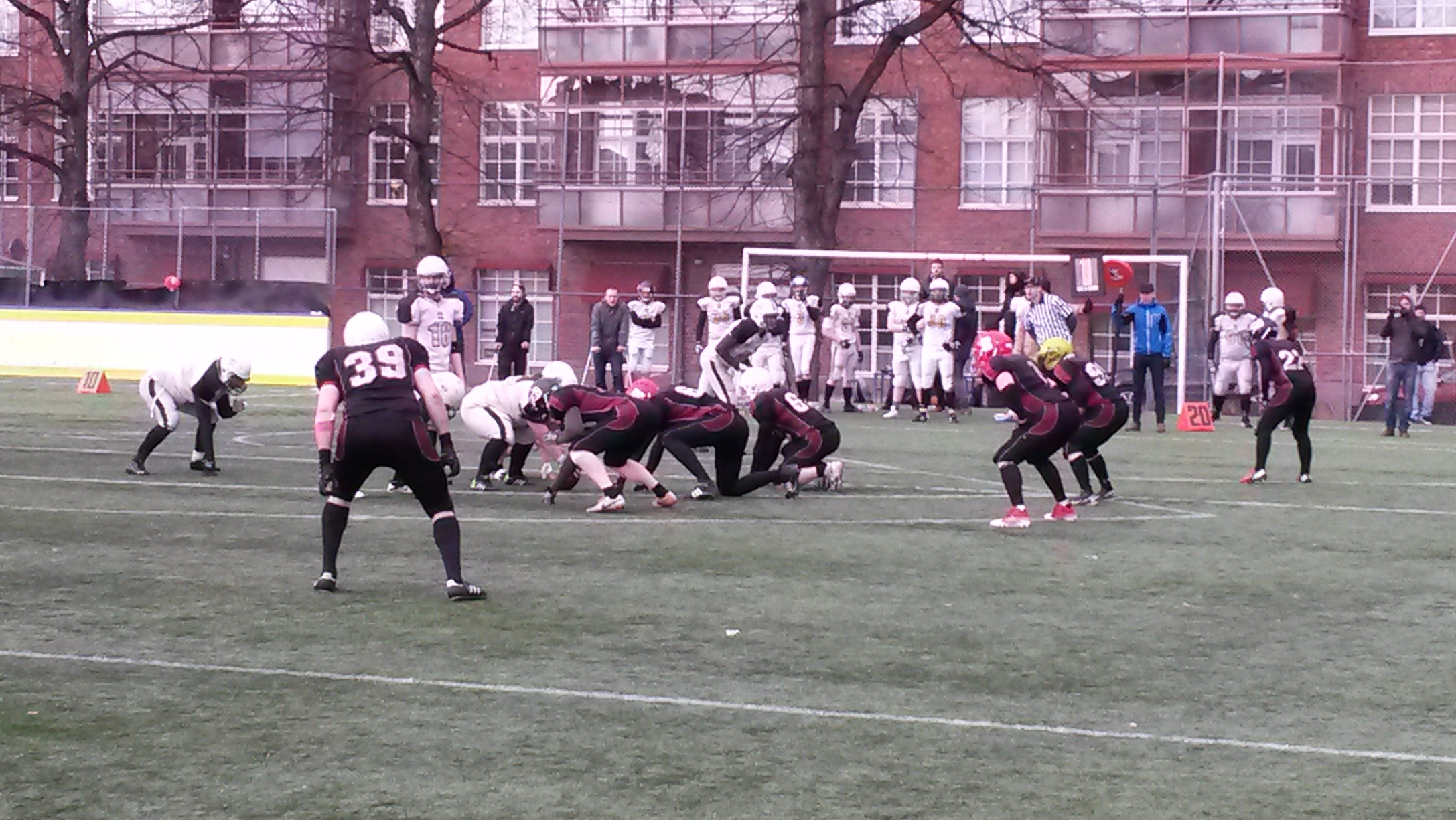 Student Bowl, the final game of the Finnish university football league. UTU Beaver Hunters (in white) vs NDU Black Knights (in black)